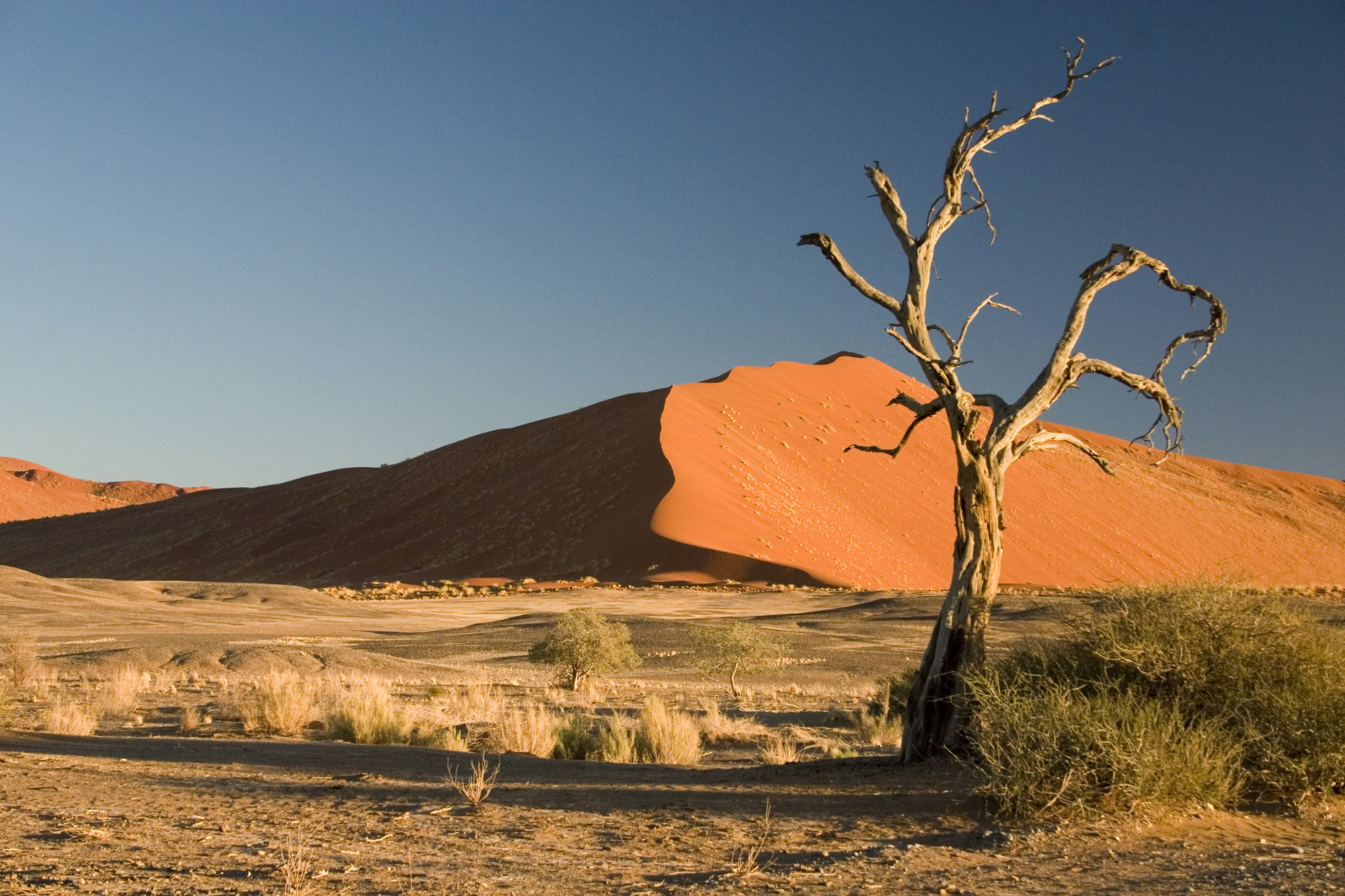 Camel Thorn Tree (Acacia erioloba) in Sossusvlei region, Namib-Naukluft National Park, Namib Desert, Namibia, Africa.